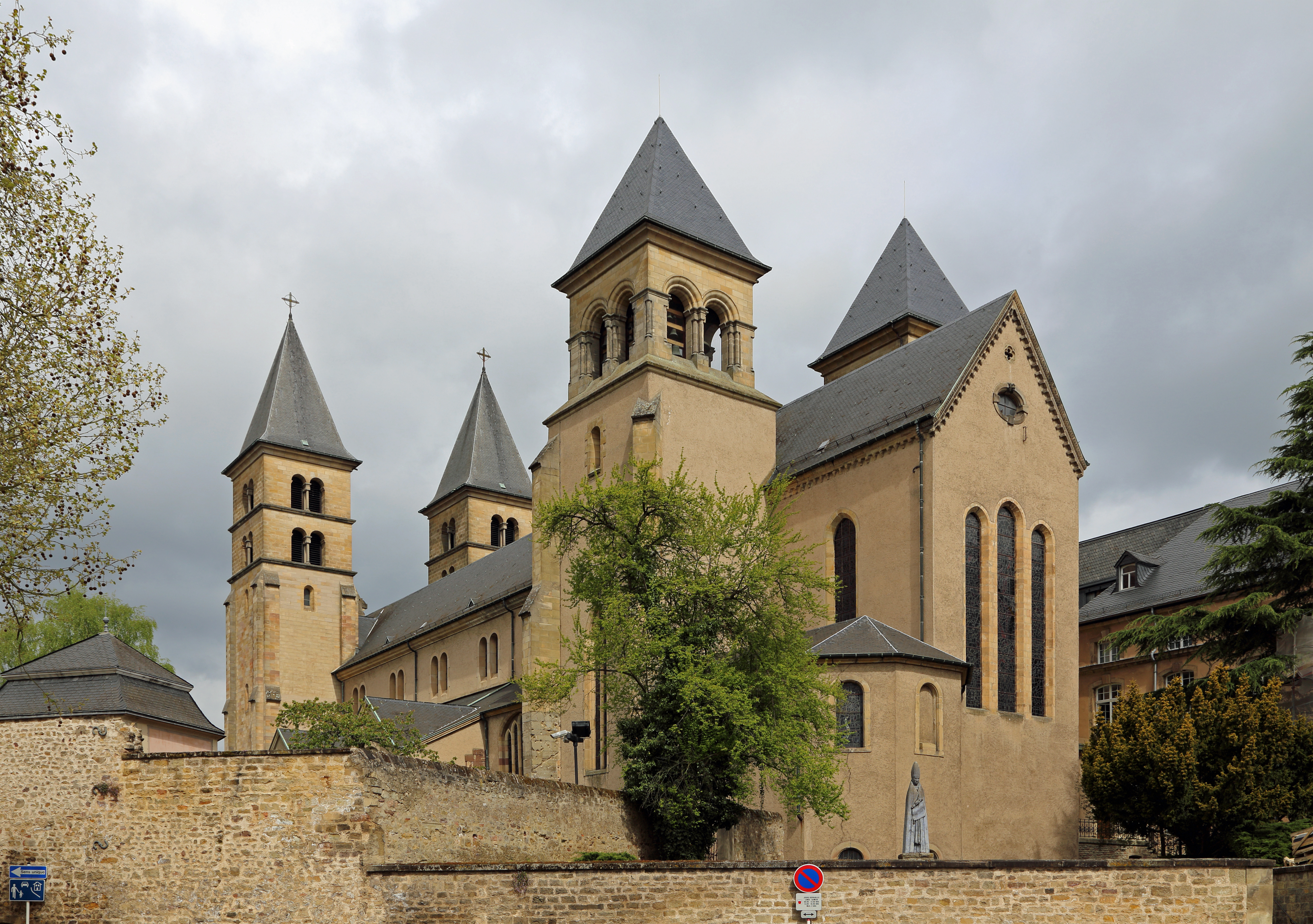 Echternach (Grand Duchy of Luxembourg): St Willibrord basilica, seen from the south